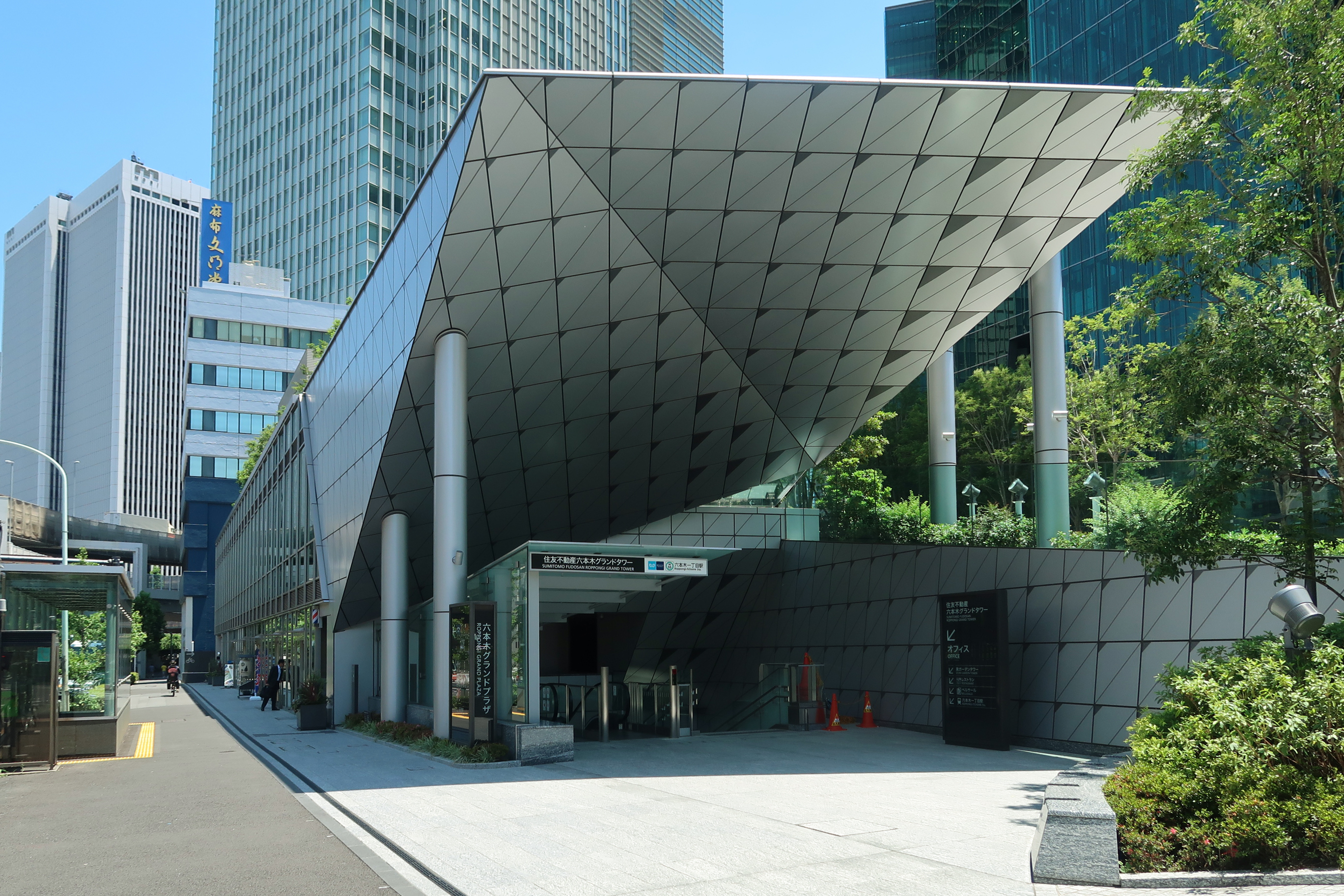 Roppongi-itchōme Station Entrance1